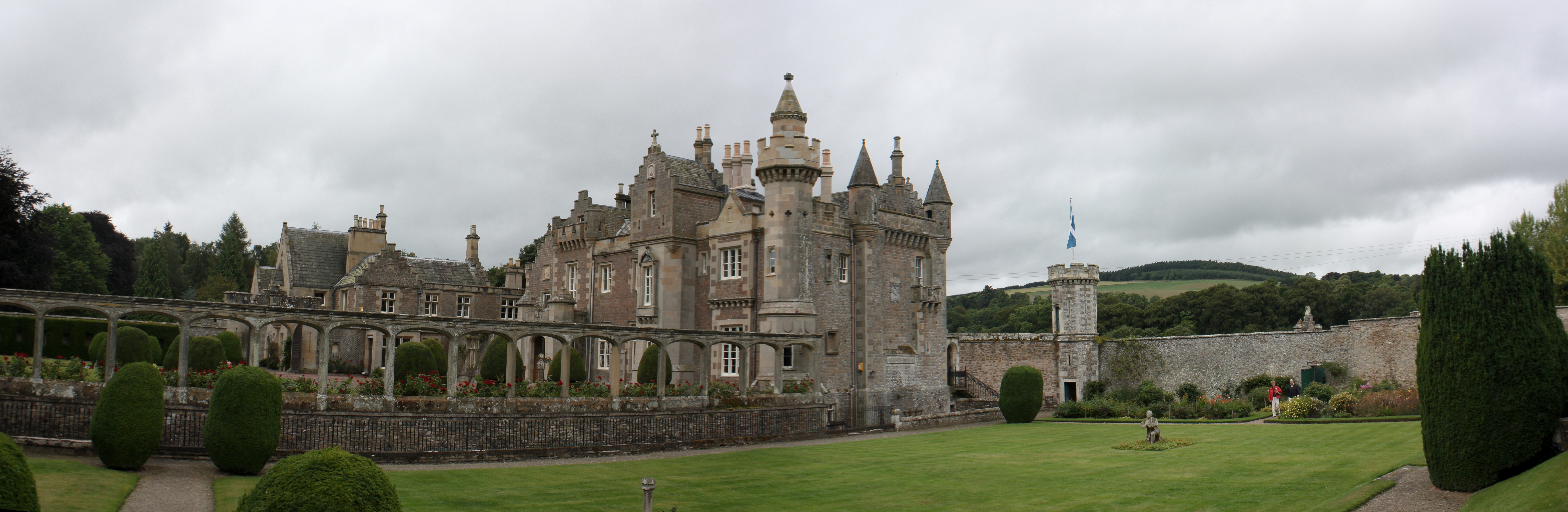 Abbotsford House, located in the Scottish Borders, is a historical house. Built in 1824, it is mostly known for being the home of the writer Sir Walter Scott.